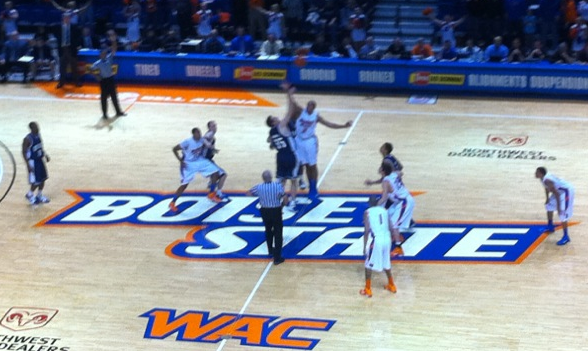 Boise State and Utah State tip off during a WAC basketball matchup at Taco Bell Arena in Boise, Idaho on January 13, 2011.